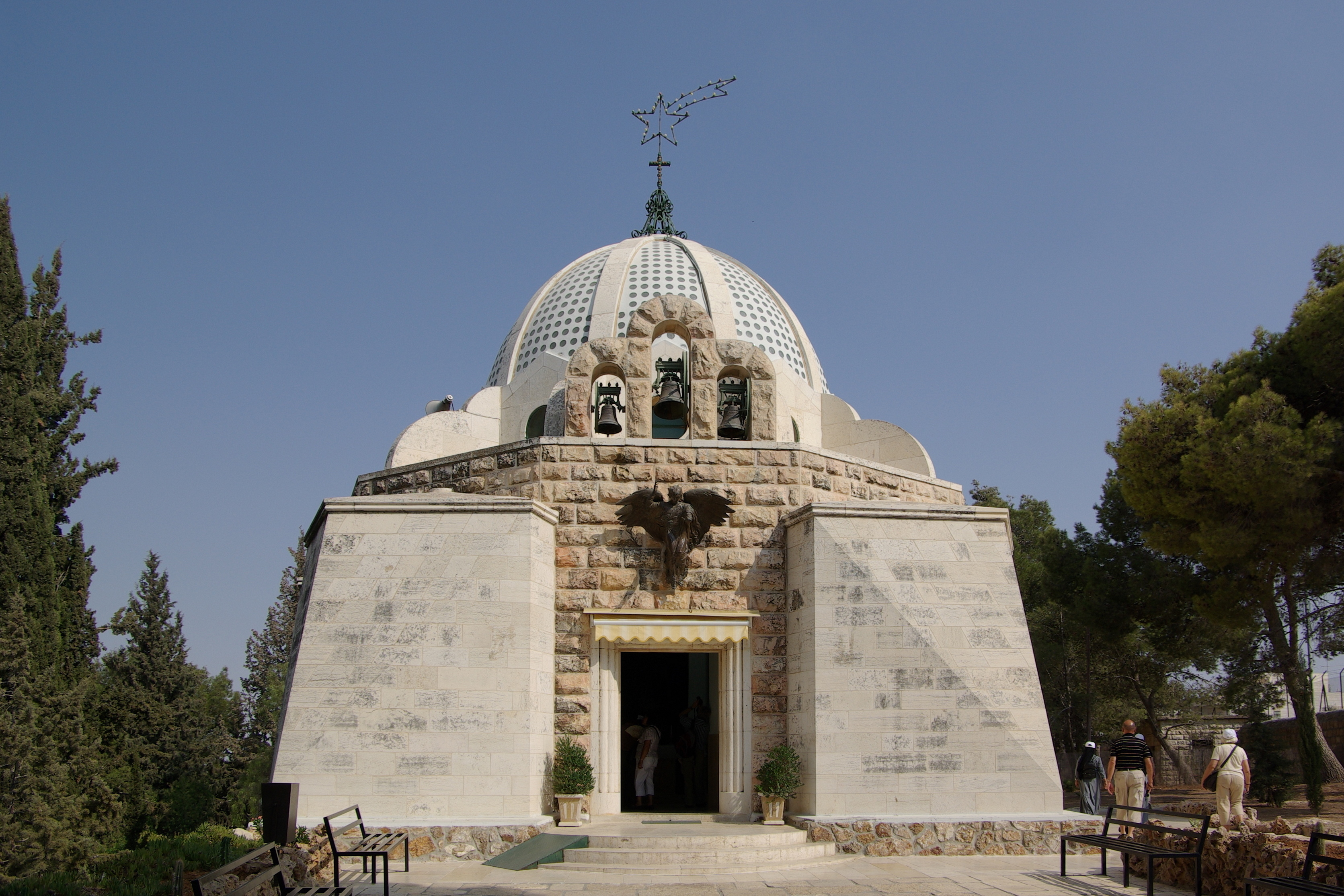 Bethlehem, Shepherds Field Chapel